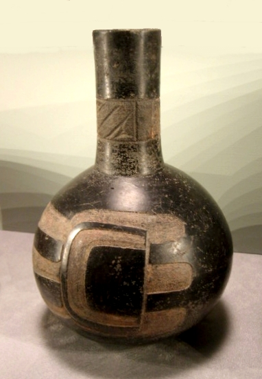 Olmec-style ceramic bottle, painted; supposedly from Las Bocas, 1100 - 800 BC